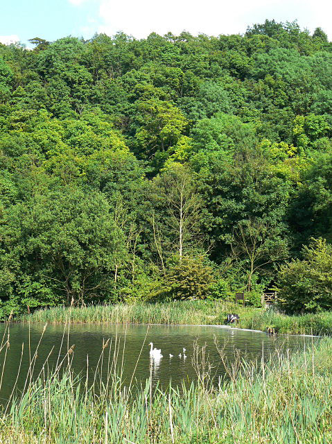 Holme Pit This pond, formerly a marl pit, lies at the foot of Clifton Woods.